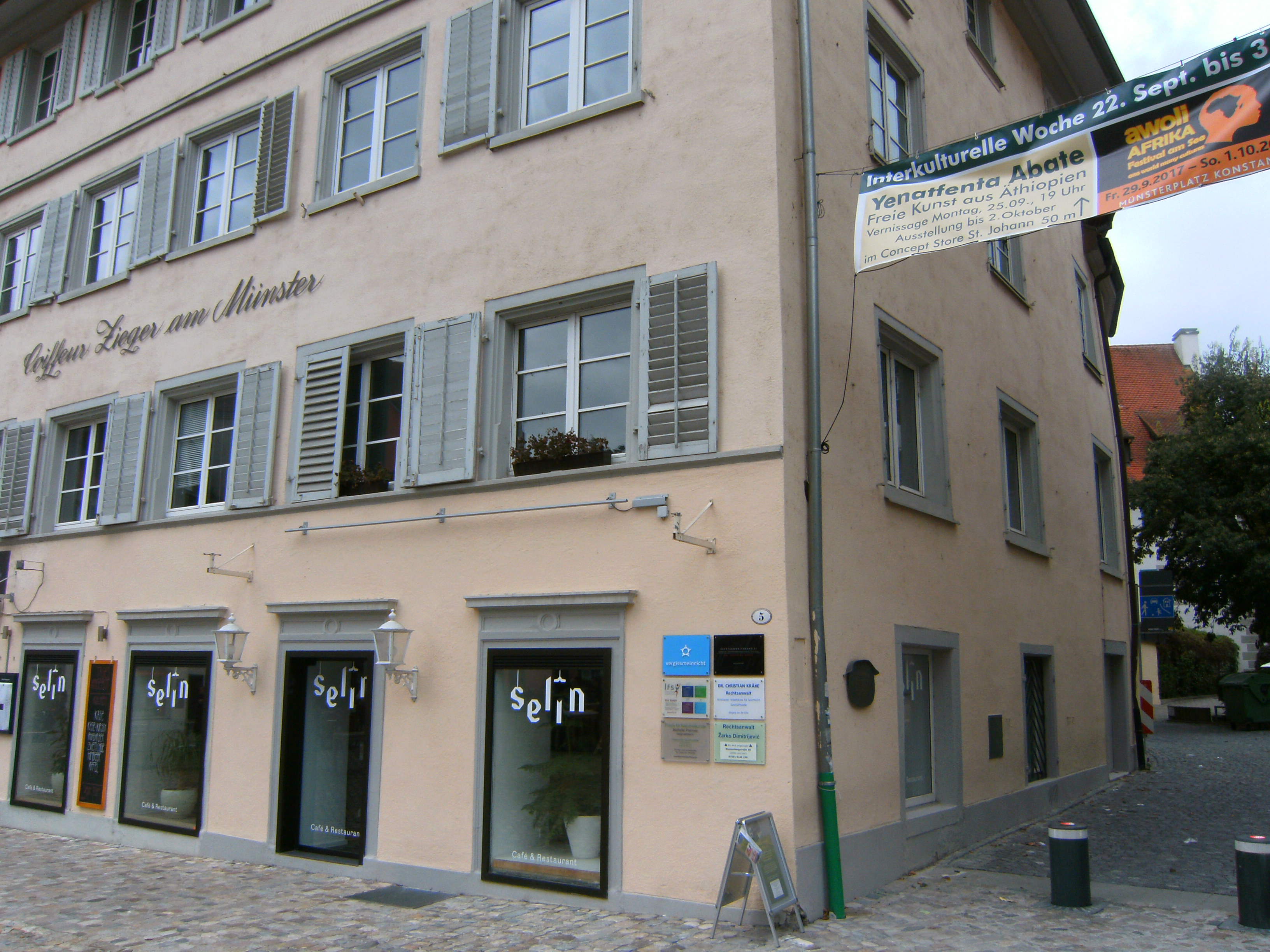 Konstanz, Germany, Münsterplatz 5: Haus Zur Kunkel (house). Access from the rear side of the house.